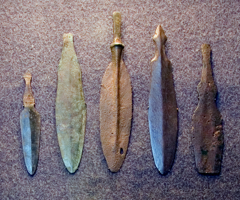 Objects found during excavations